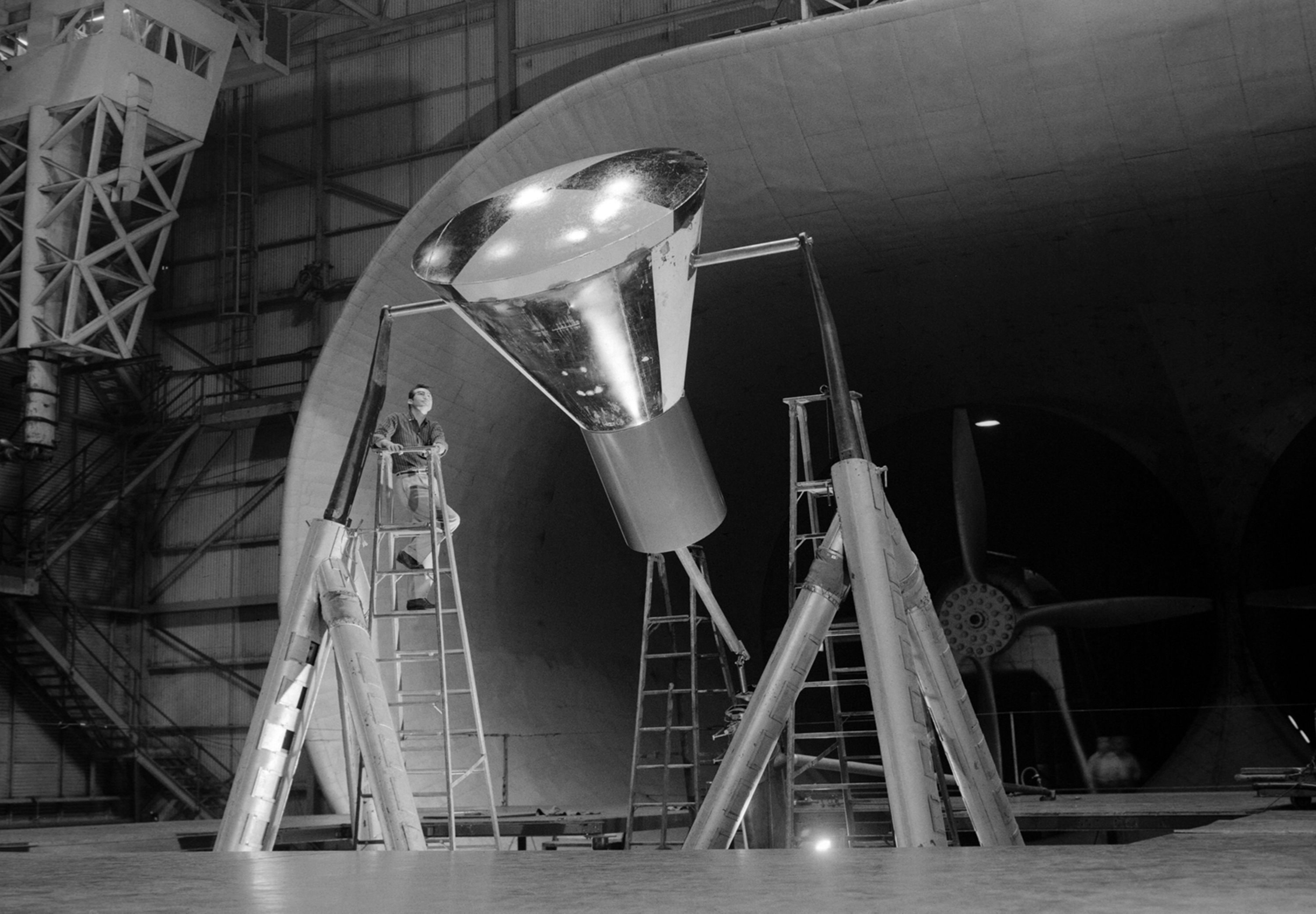 The Mercury space capsule undergoing tests in Full Scale Wind Tunnel, January 1959.